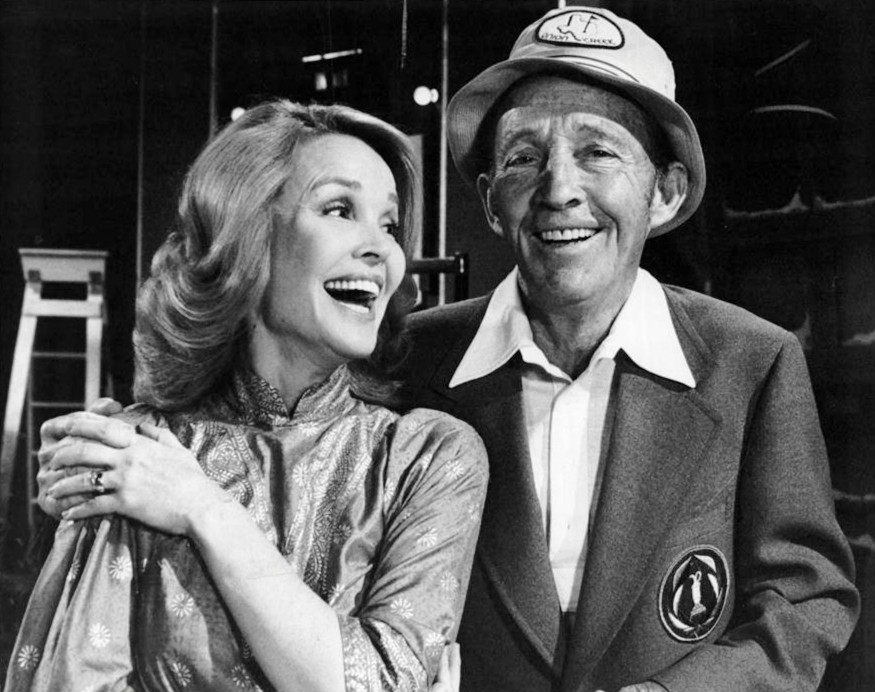 Photo of Bing and Kathryn Crosby from his 1976 television Christmas special.